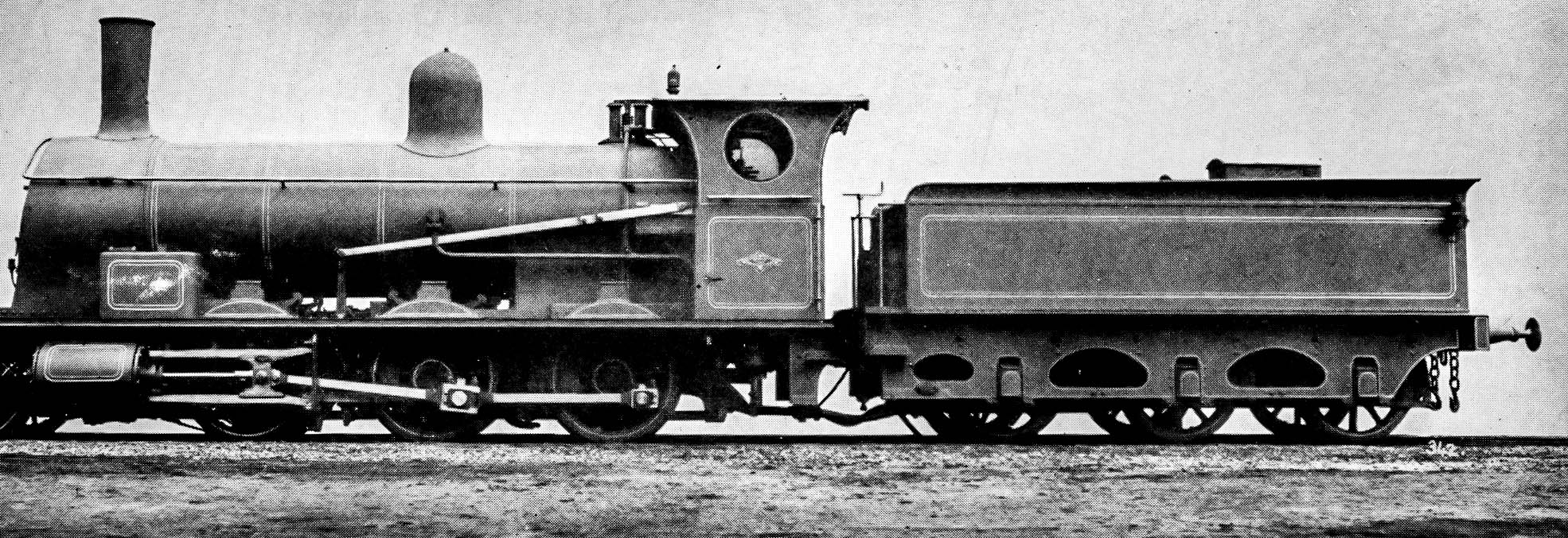 NSWGR Class Z24 Locomotive